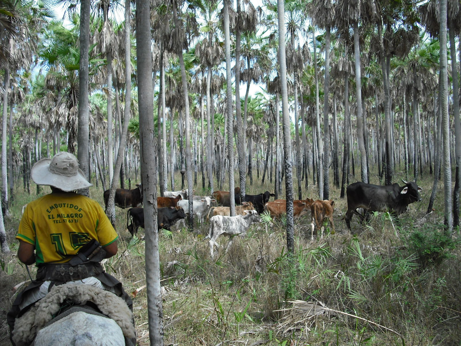 Paraguay Chaco, cattle in Karanda'y palm tree savanna (Bajo Chaco), Alto Paraguay Province